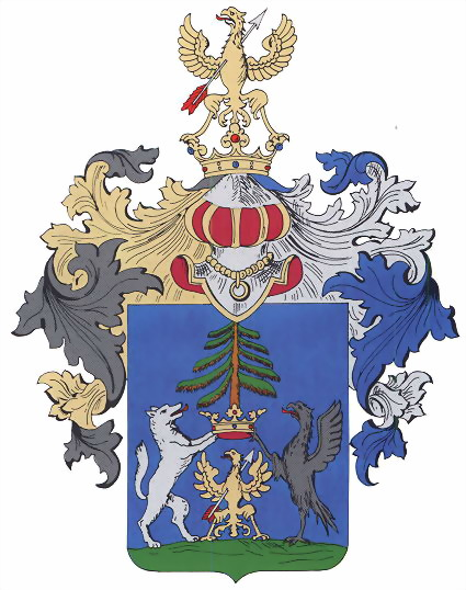 Coat of arms of county of Kingdom of Hungary